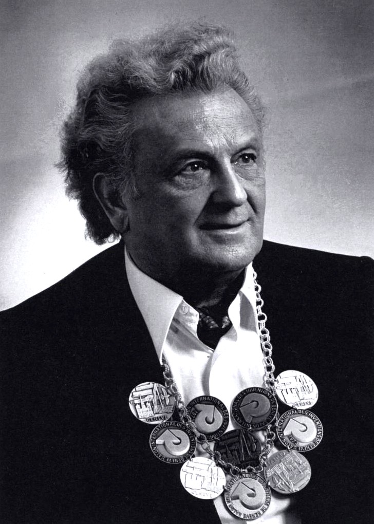 Josef Richard Kaelin, Swiss inventor and film producer